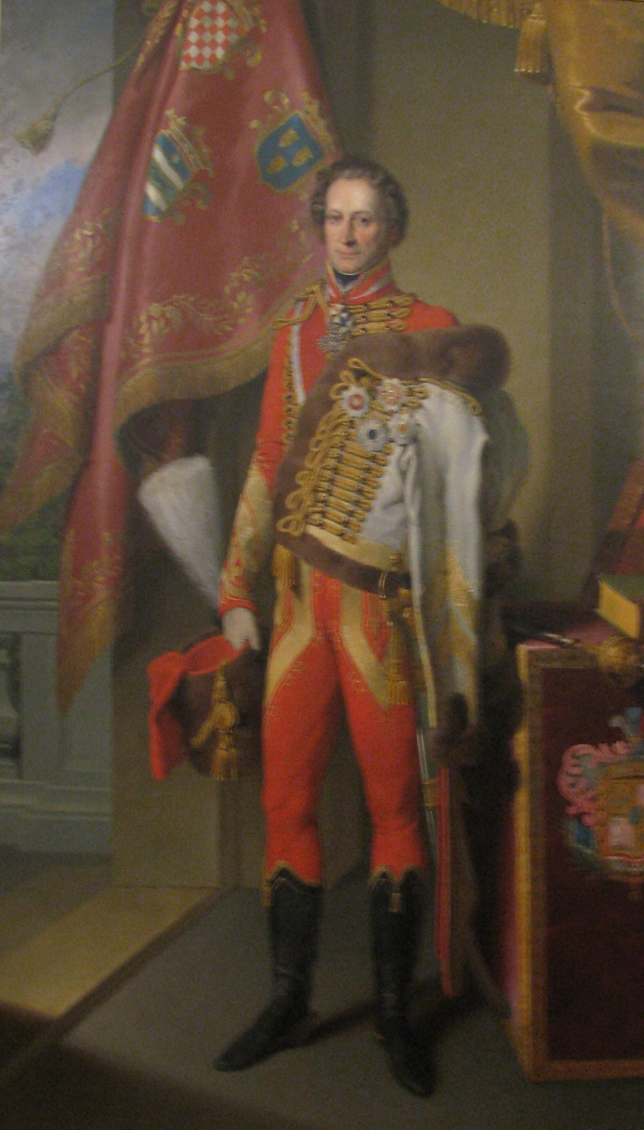 Vice-roy of Croatia Ignjat Gyulay (1763-1831)